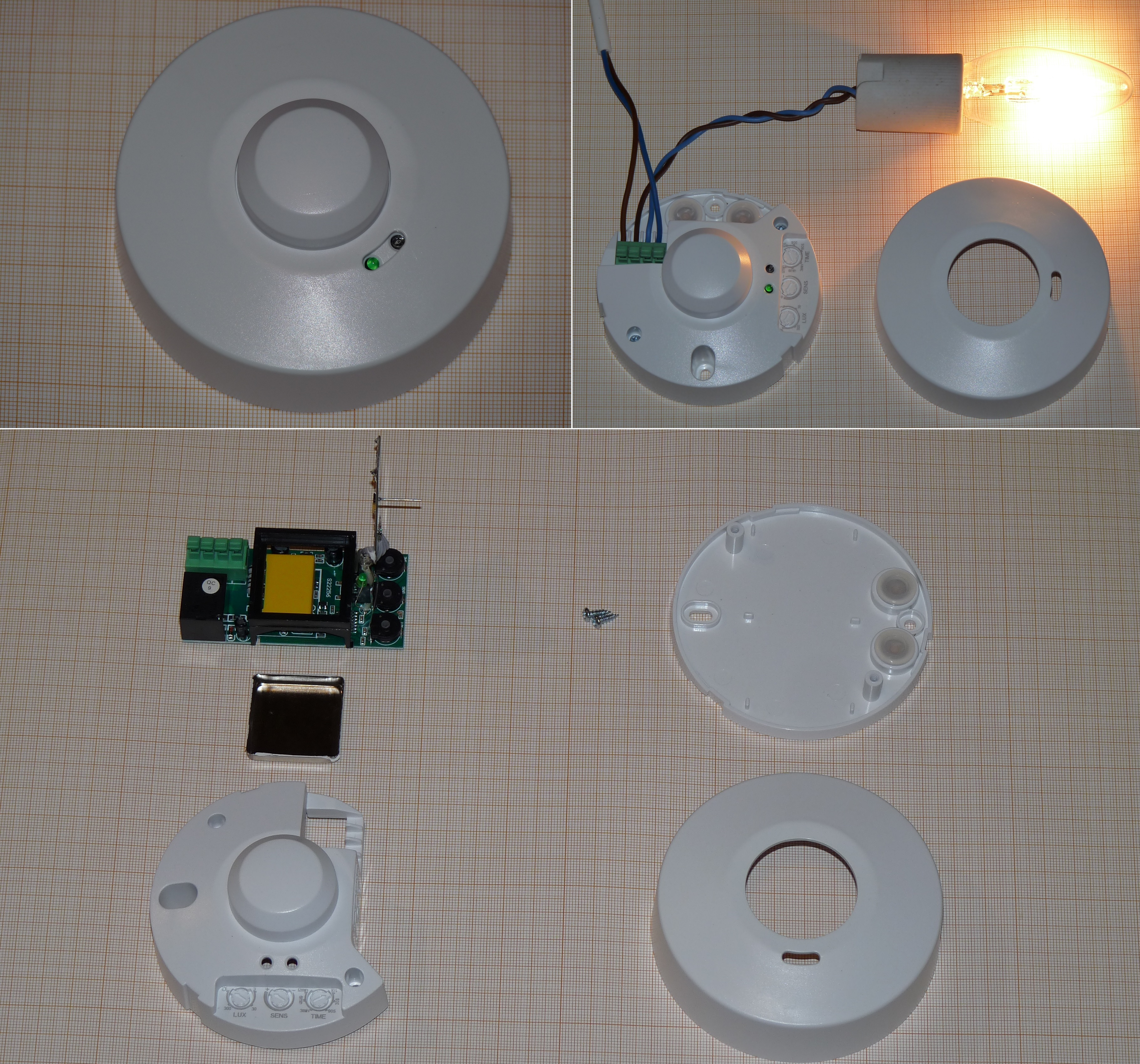 Microwave motion detector